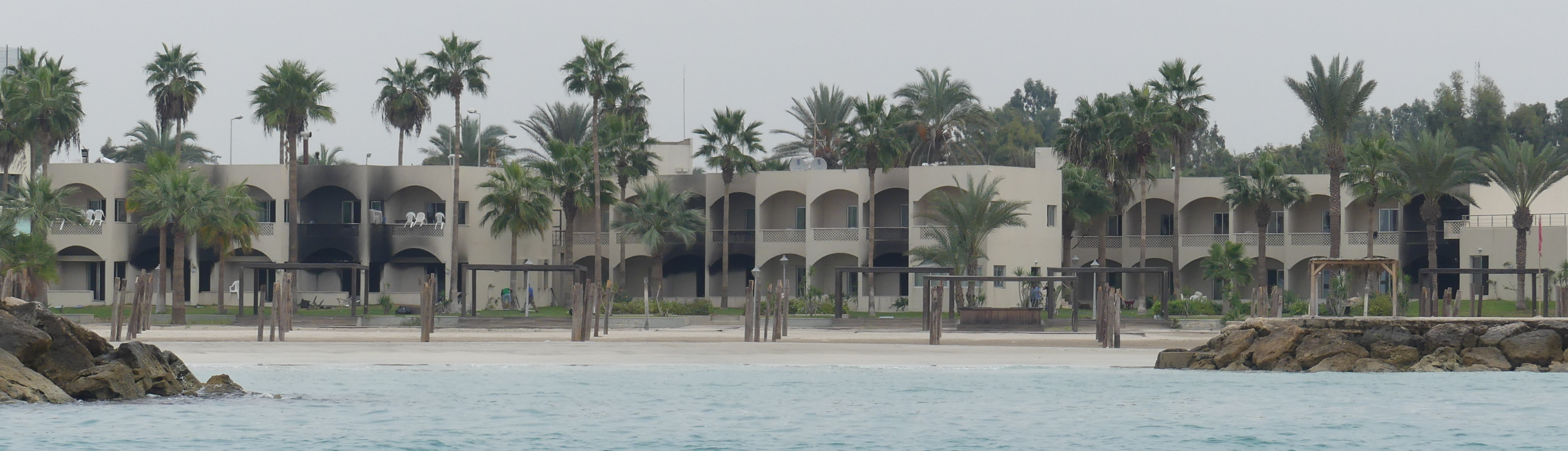 The ruins of the Rest House hotel in Tyre/Sour, Southern Lebanon, torched on the 18th of October 2019